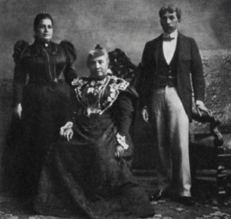 Queen Liliuoakalani seated with her lady-in-waiting Mrs. Elizabeth Nahaolelua (daughter in law of Governor Paul Nahaolelua) and secretary Mr. Joseph Heleluhe.